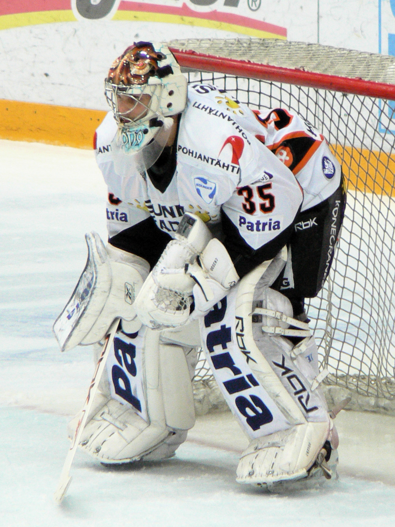 Canadian ice hockey goalkeeper Andy Chiodo playing for the Finnish SM-liiga club HPK Hämeenlinna in January 2008.